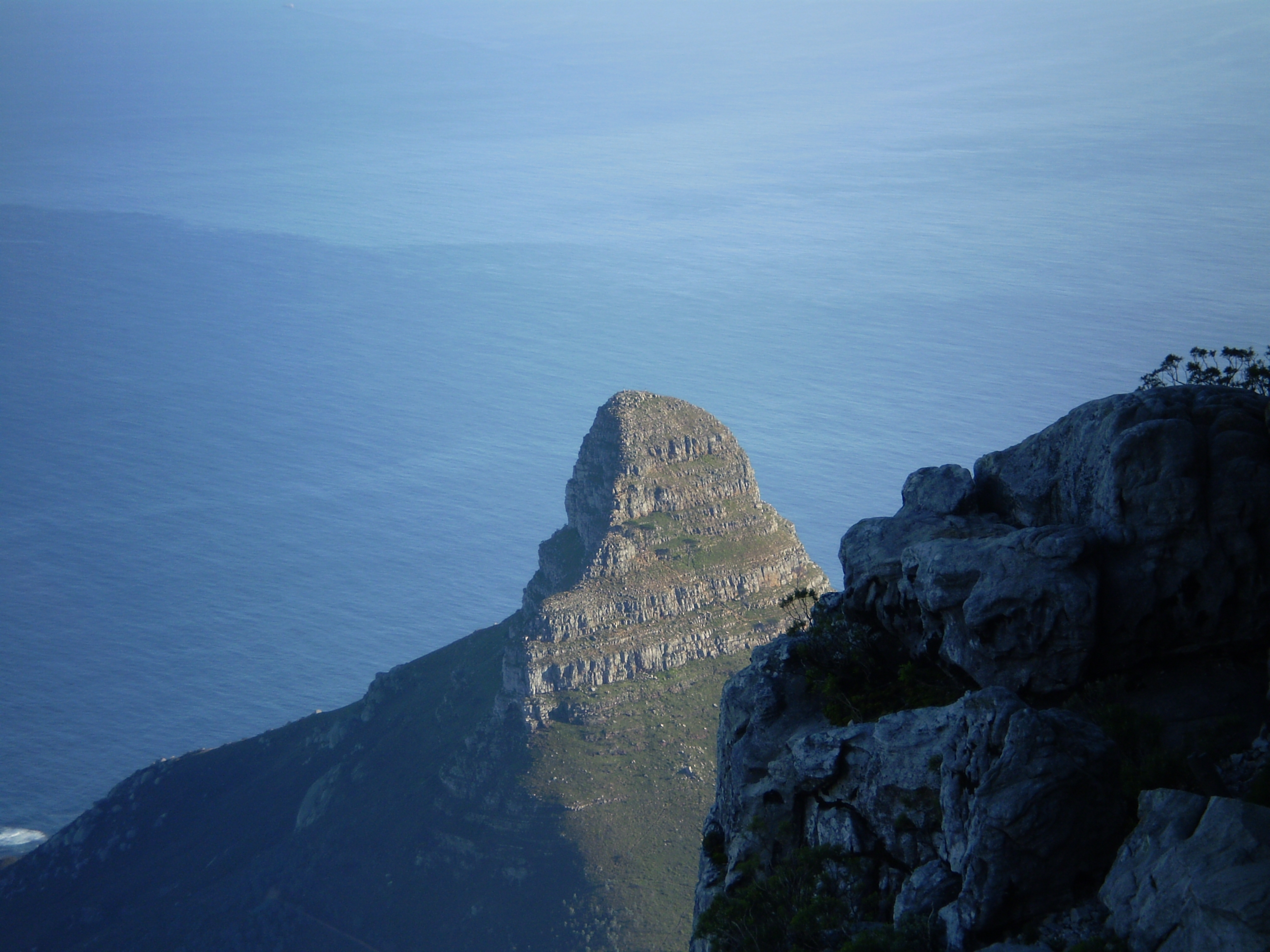 Cape Floral Region Protected Areas (South Africa)